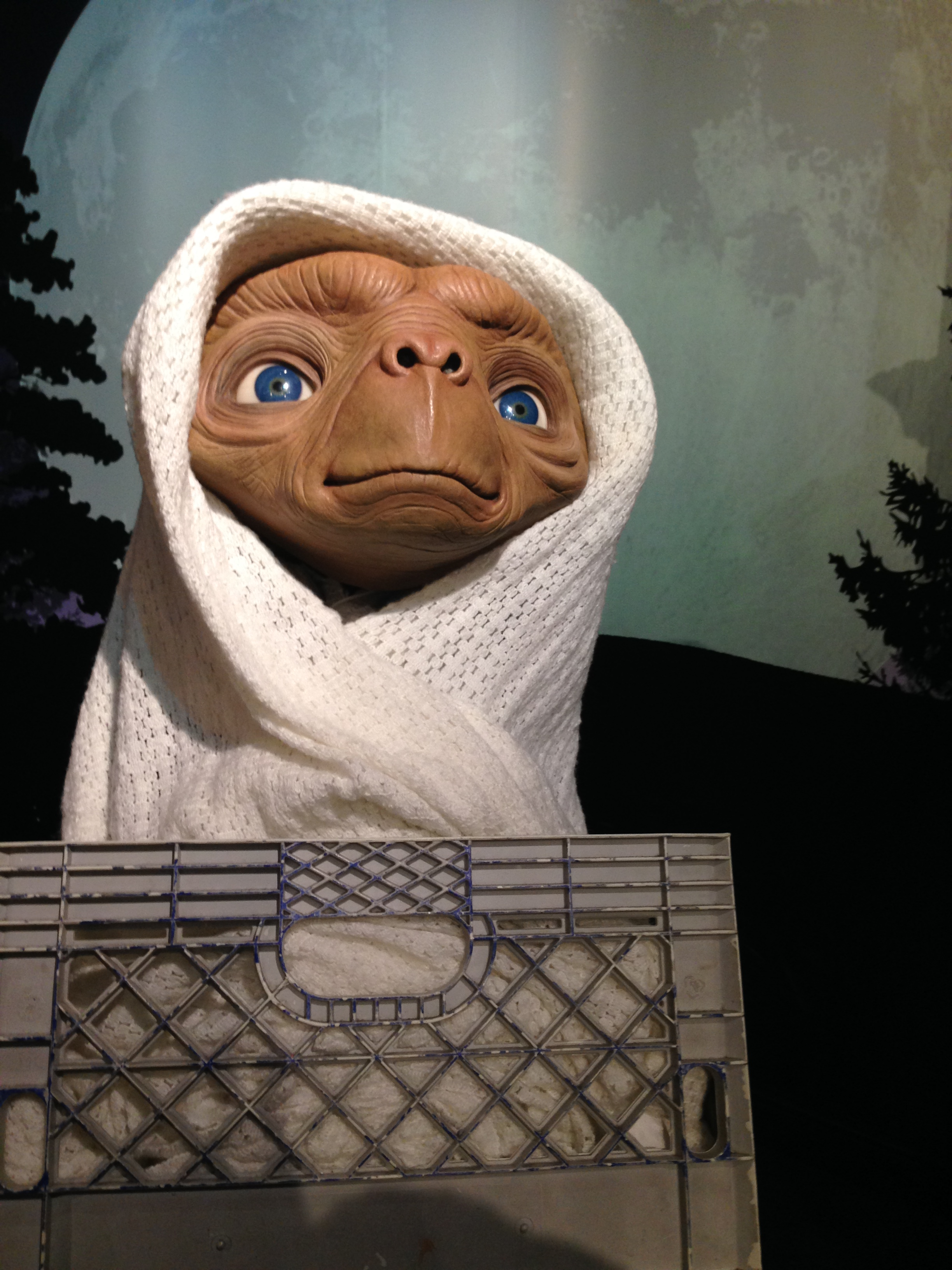 E.T. at Madame Tussauds London - November 1st, 2016